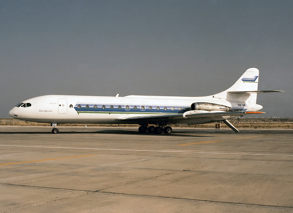 Transwede Aerospatiale SE-210 Caravelle 10B1R SE-DEC at Faro Airport